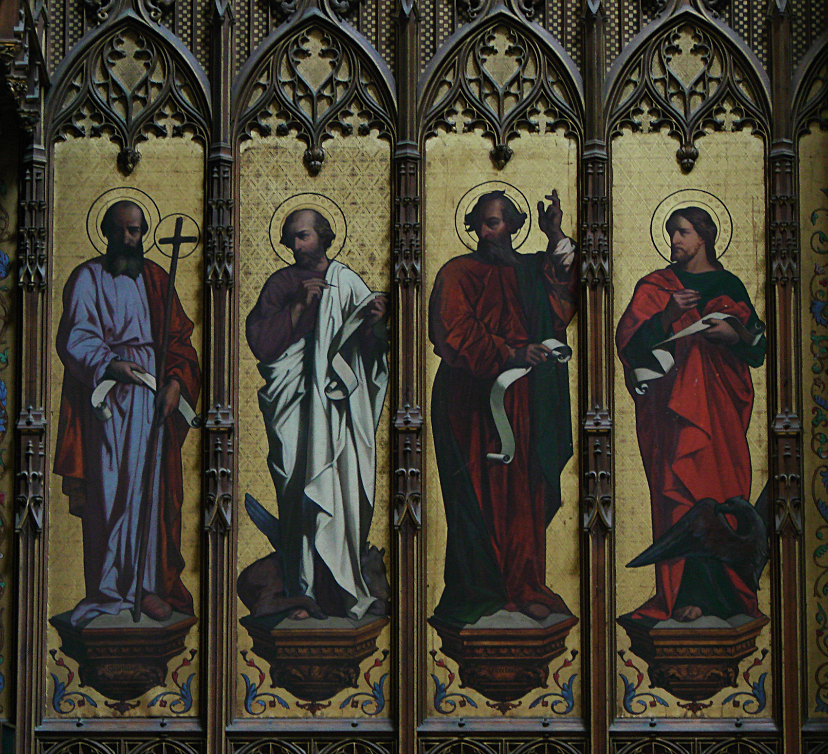 Auch Cathedral, France, the choir: painting.